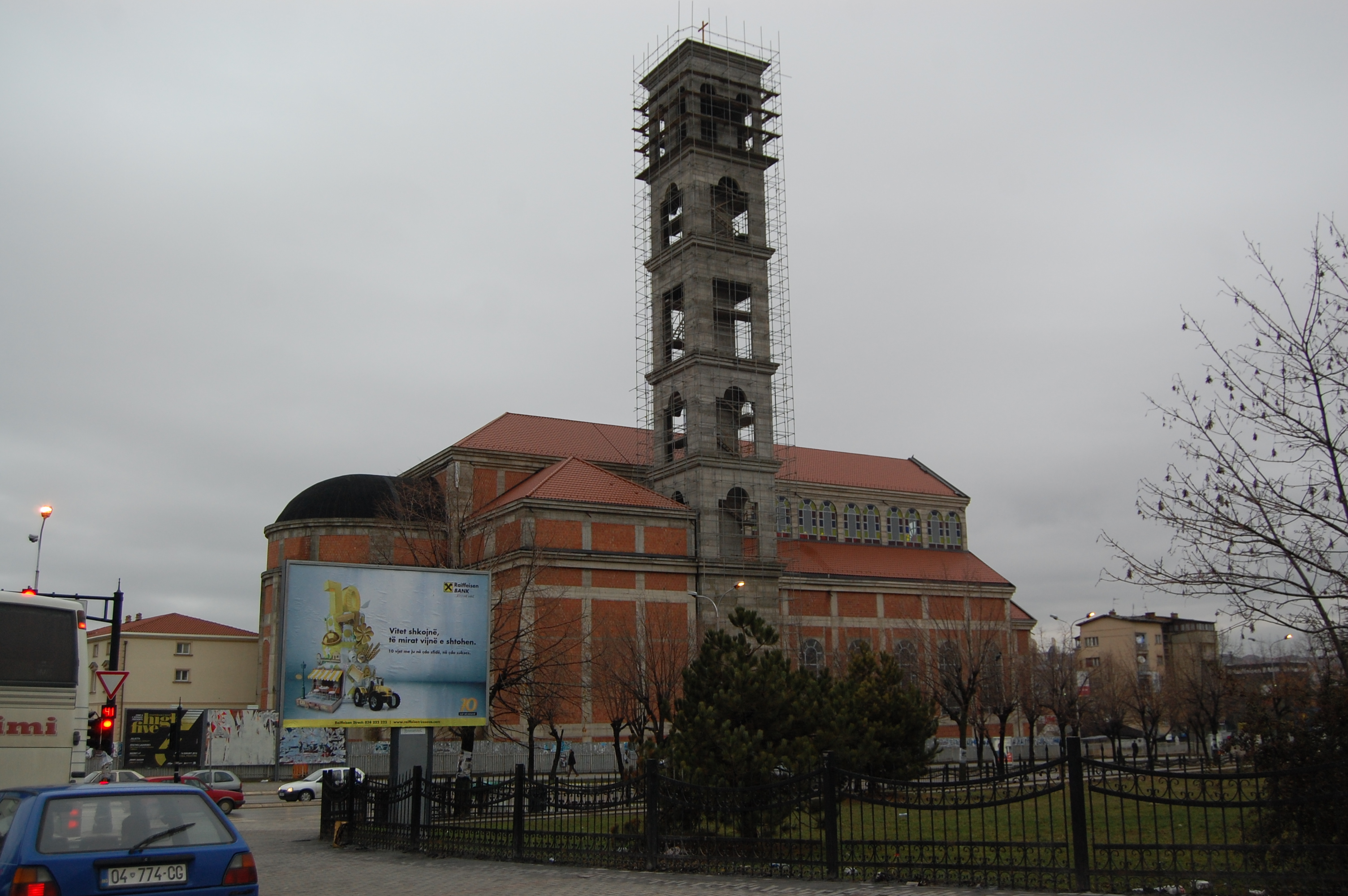 Roman Catholic Cathedral of Blessed Mother Teresa, Pristina, Kosovo.